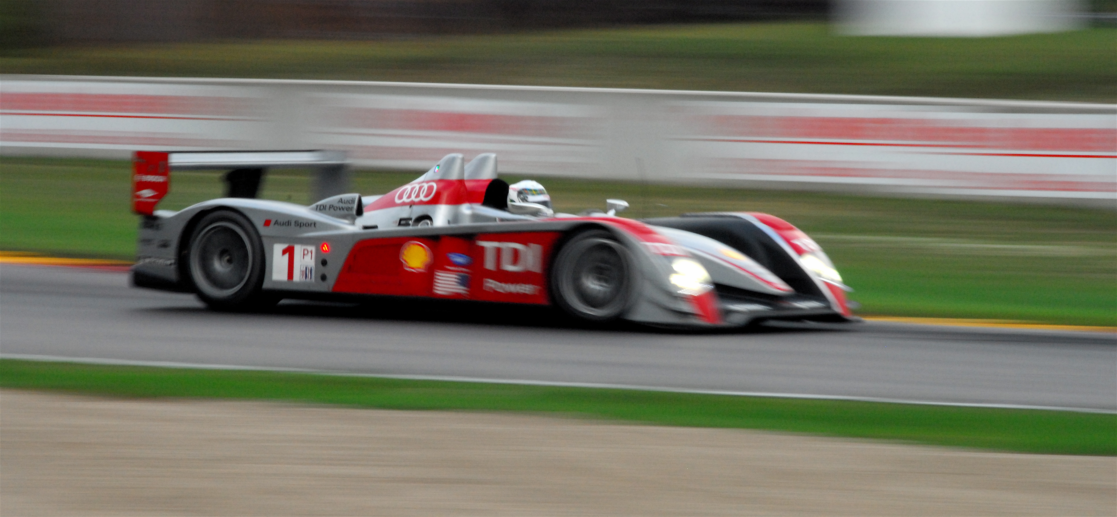 Allan McNish at the 2007 General 500, and American LeMans Series race at Road America in August 2007.